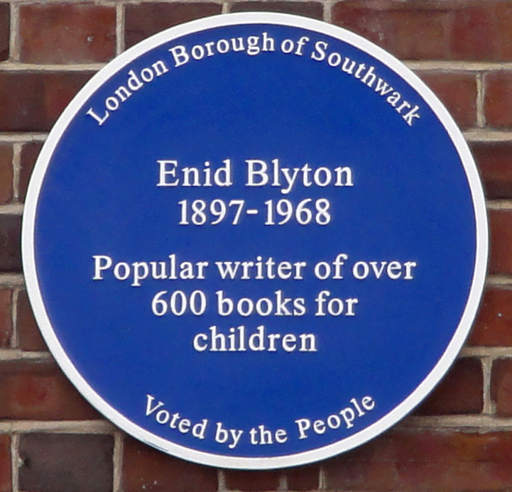 Blue plaque for Enid Blyton near Dulwich Library.